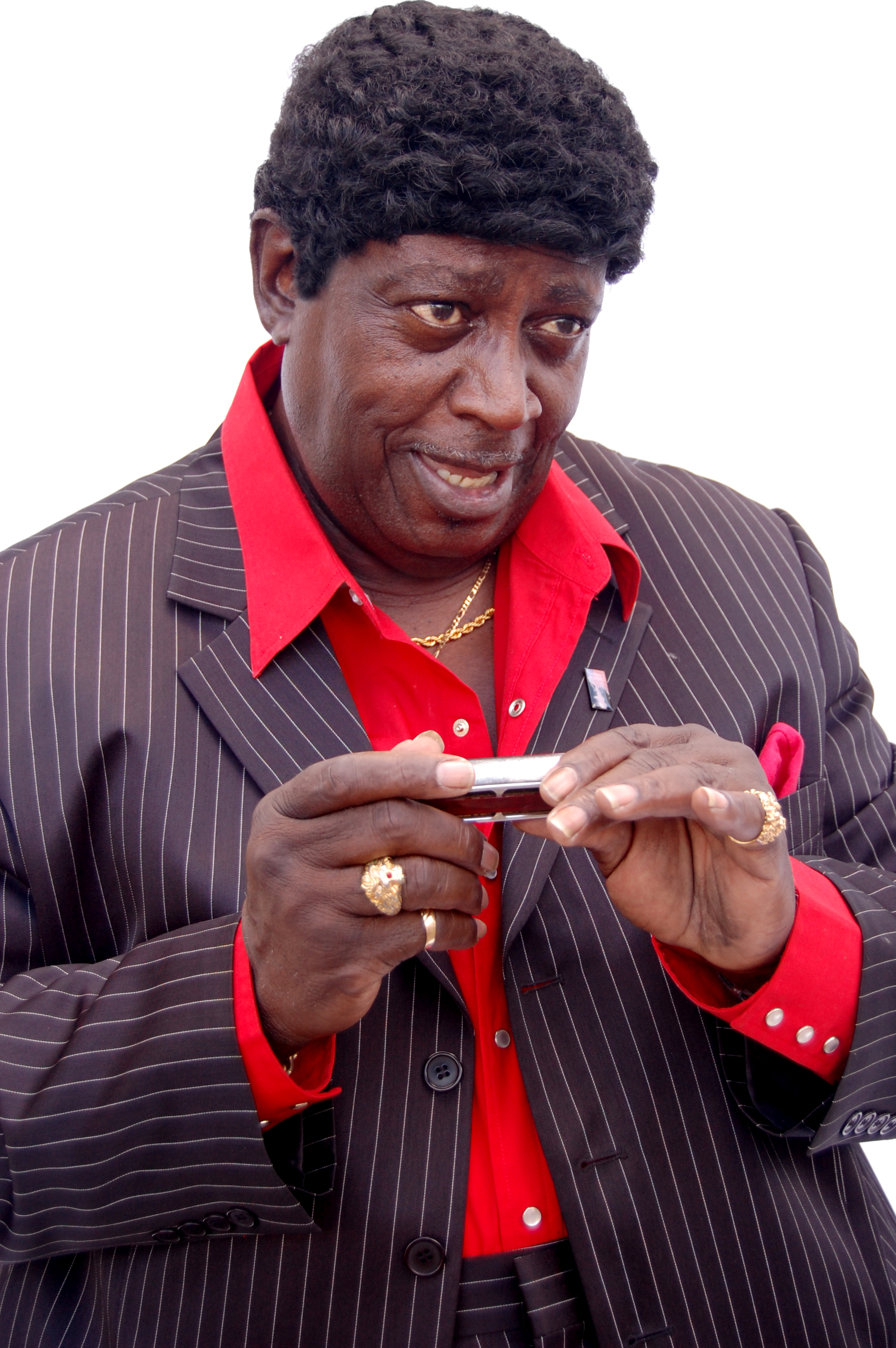 Sam Frazier Jr.